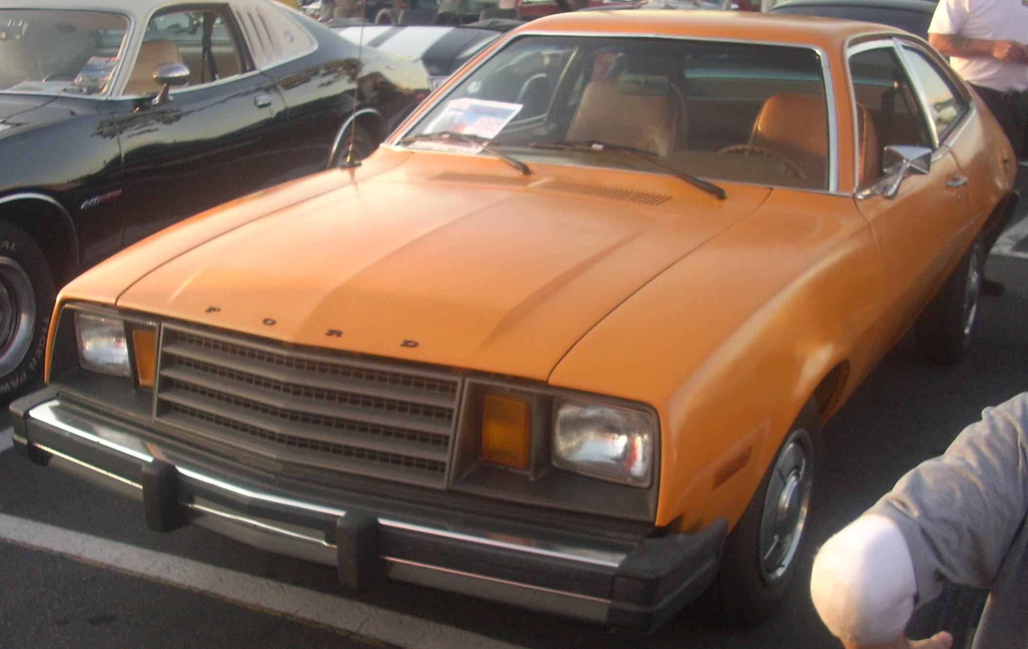 1980 Ford Pinto photographed in Montreal, Quebec, Canada at Gibeau Orange Julep.